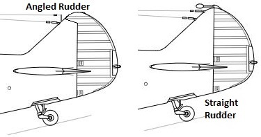 LaGG-3 rudders